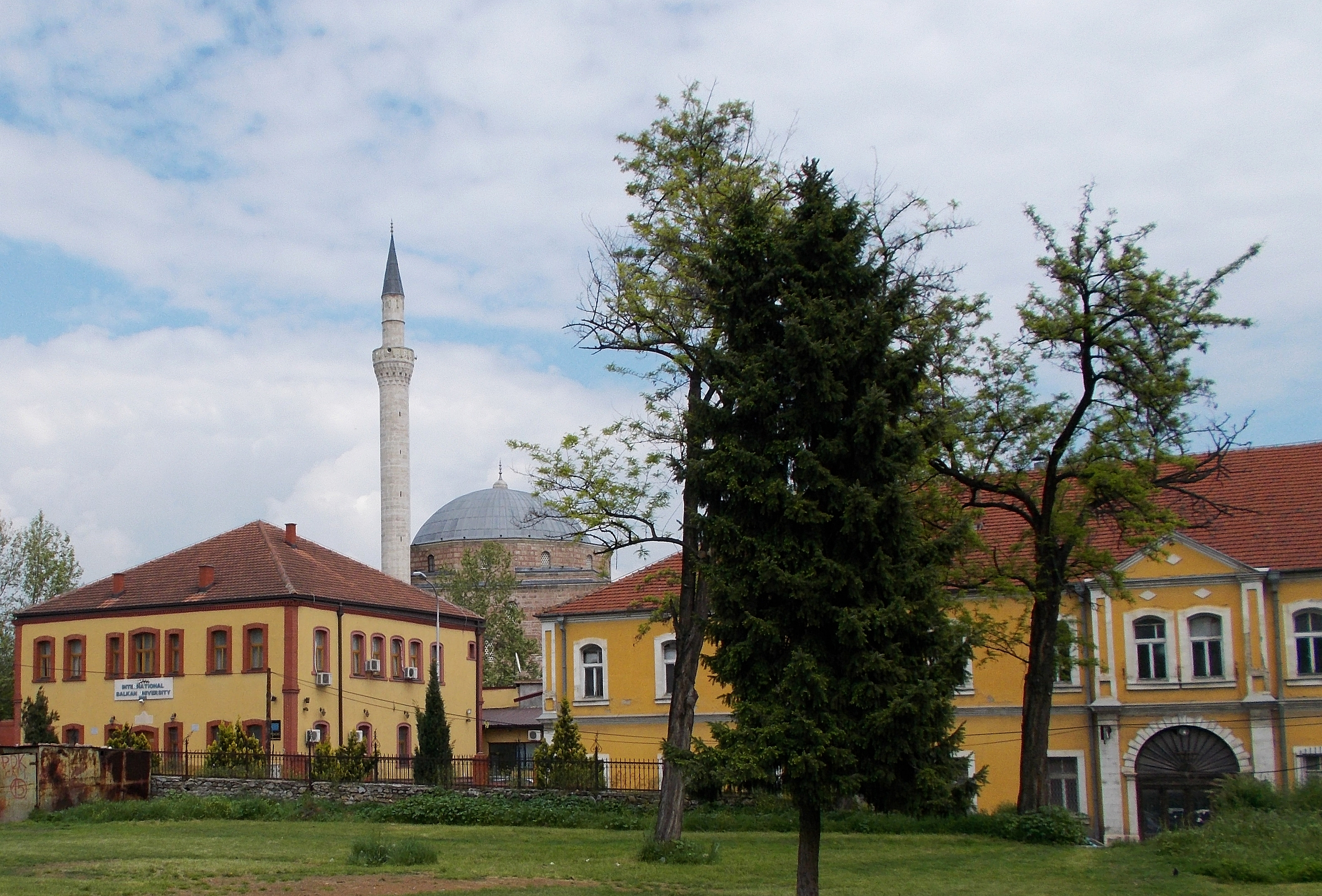 International Balkan University - Skopje